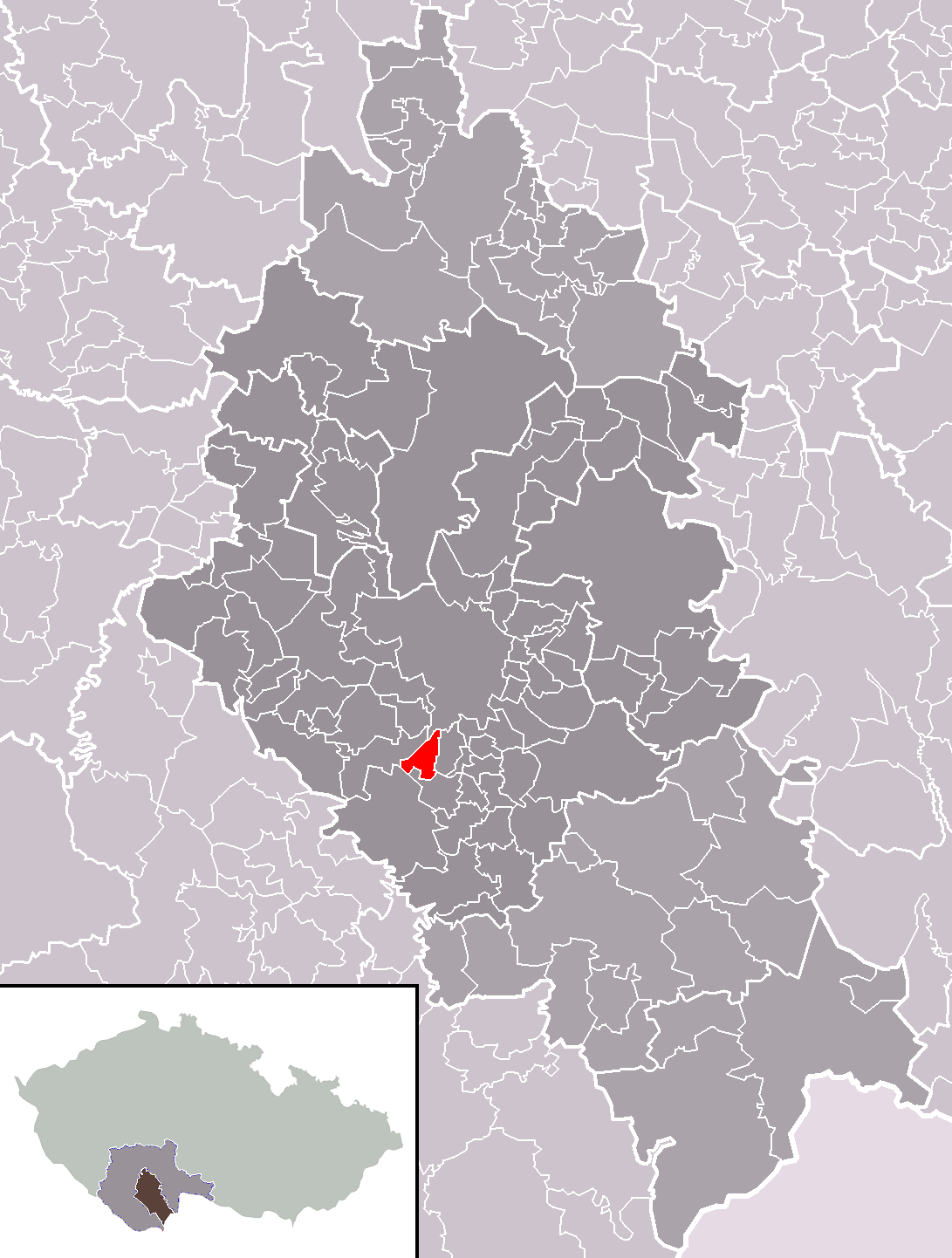 Location of Včelná municipality within České Budějovice District and administrative area of České Budějovice as a Municipality with Extended Competence.